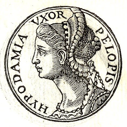 Hippodamia was a daughter of King Oenomaus and wife of Pelops with whom her offspring were Thyestes, Atreus, and Pittheus, Alcathous.